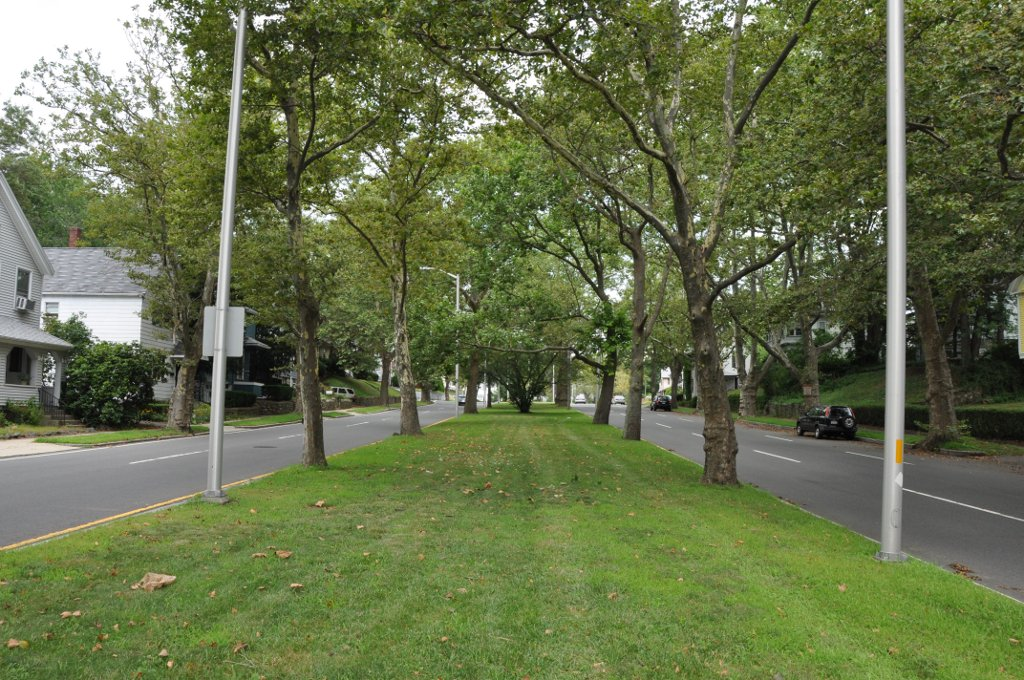 The East Fellsway in Malden, Massachusetts, listed as part of the Fells Connector Parkways.